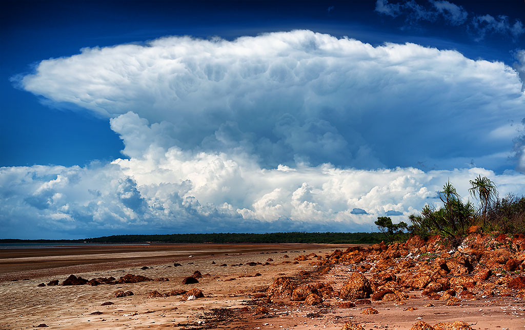 An image of Hector (cloud) taken from Gunn Point, Northern Territory.